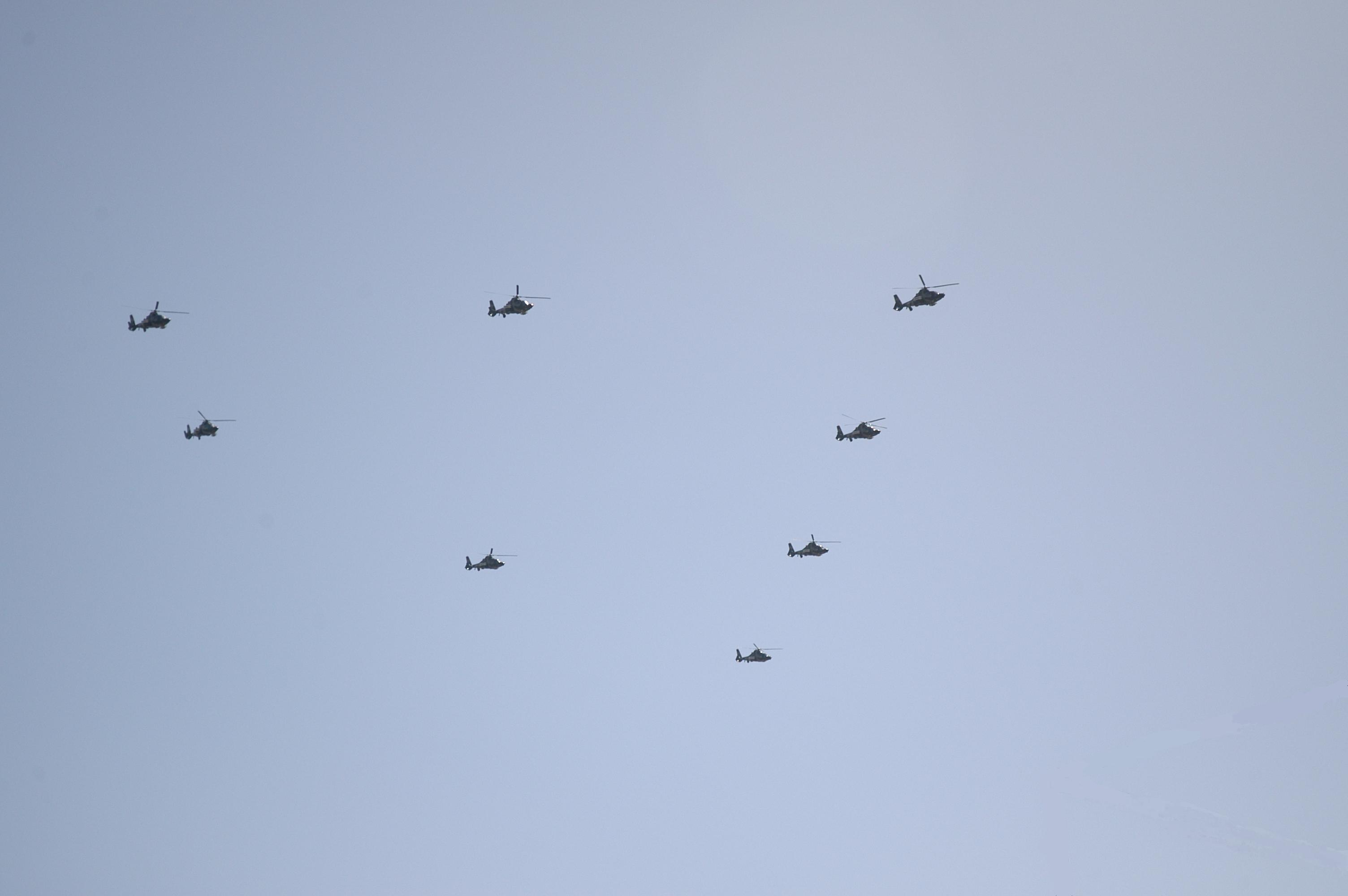 Rehearsal flyby of military helicopters for China's 60th anniversary. Beijing, China